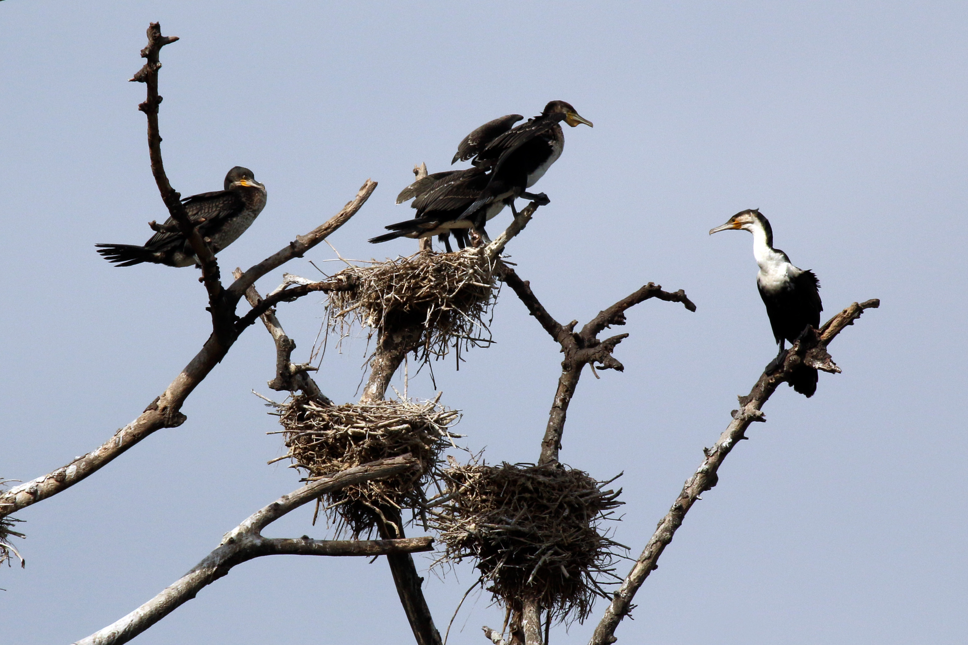 White-breasted cormorants (Phalacrocorax lucidus), iSimangaliso Wetland Park, KwaZulu Natal, South Africa